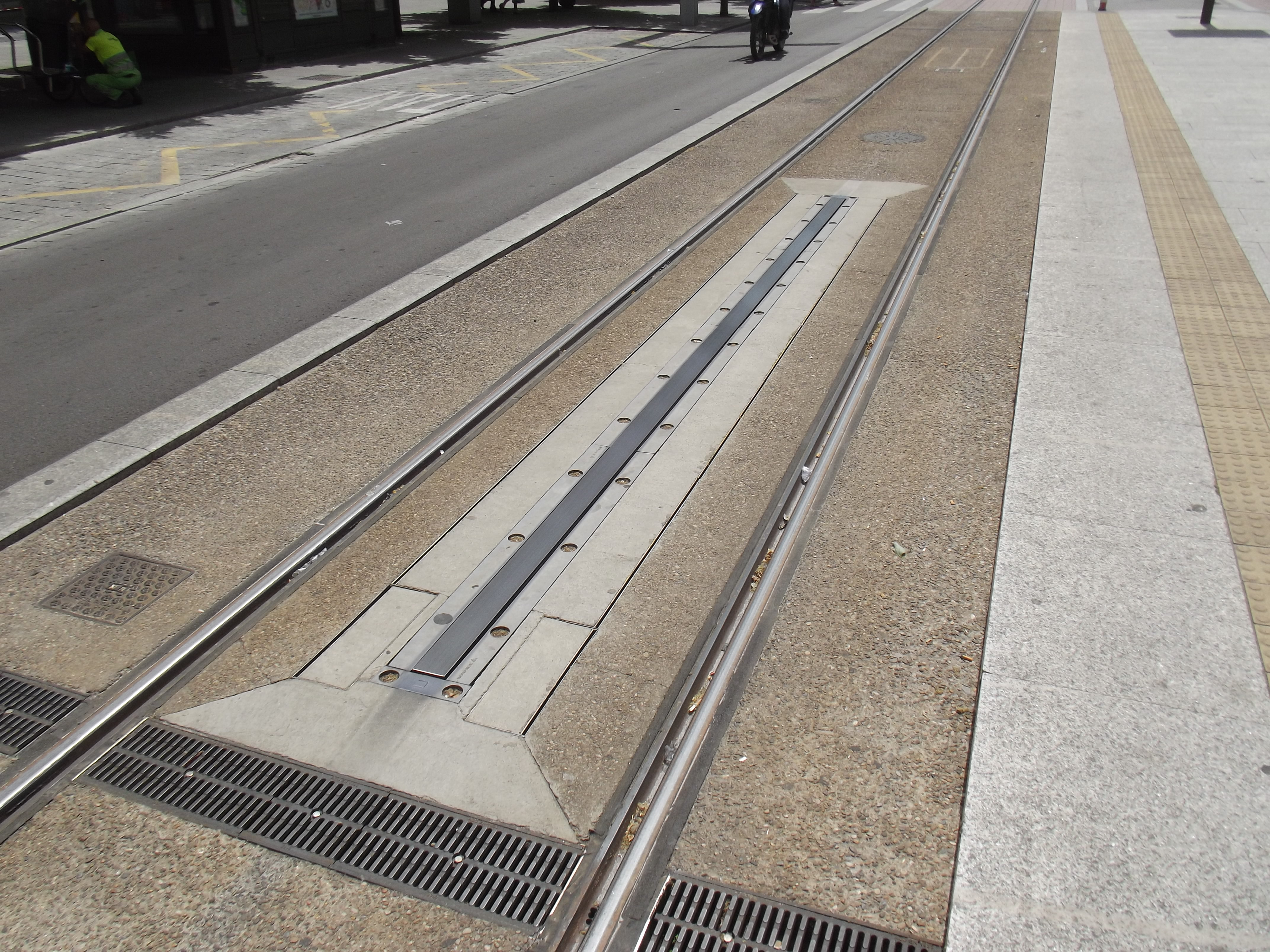 Quick charge load point for Zaragozan trams by stops without overhead line.